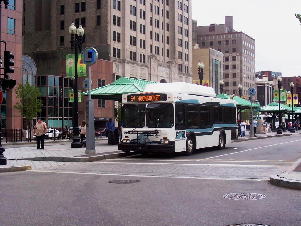 RIPTA New Flyer C30LF #0201 in Providence, Rhode Island.